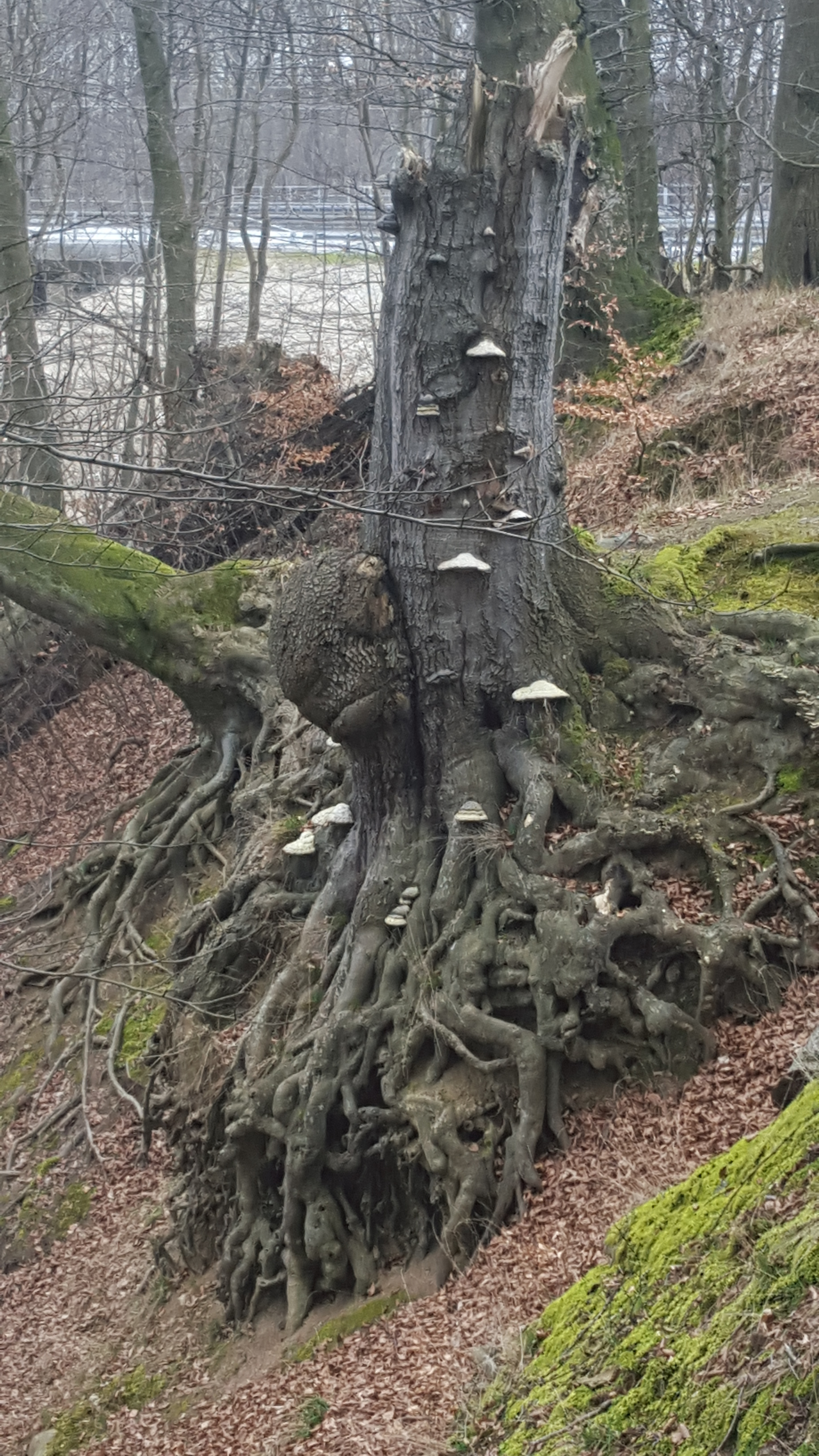 Skovhus Vænge